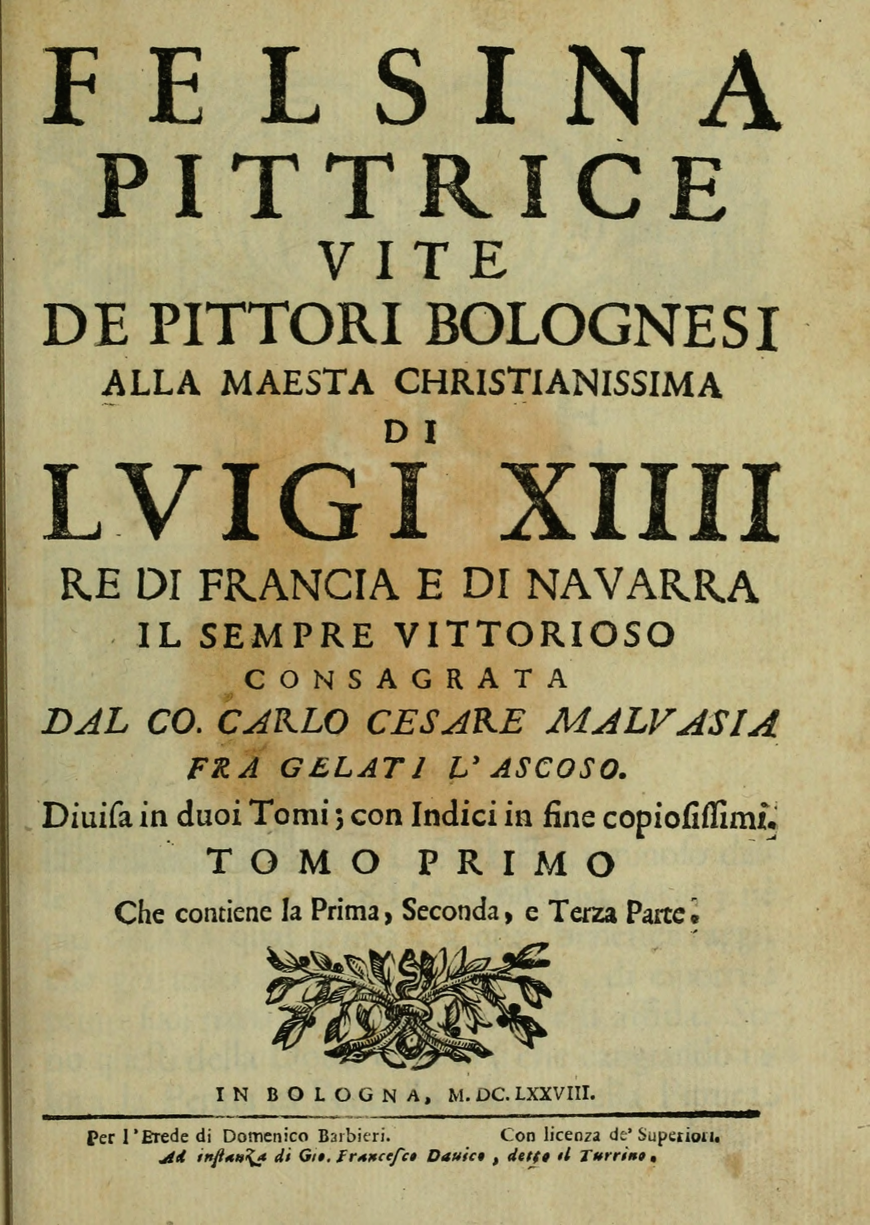 Title page of Carlo Cesare Malvasia's Felsina pitrice, a history of Bolognese artists